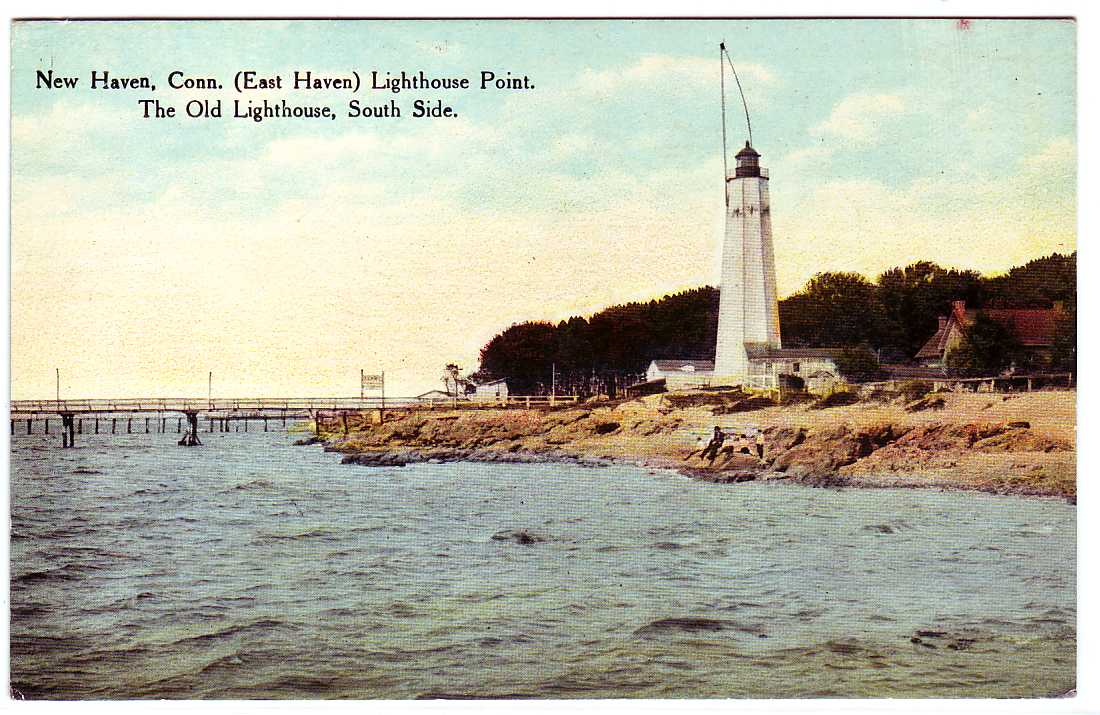 Postcard, caption on the front: "New Haven, Conn. (East Haven) Lighthouse Point. / The Old Lighthouse, South Side."